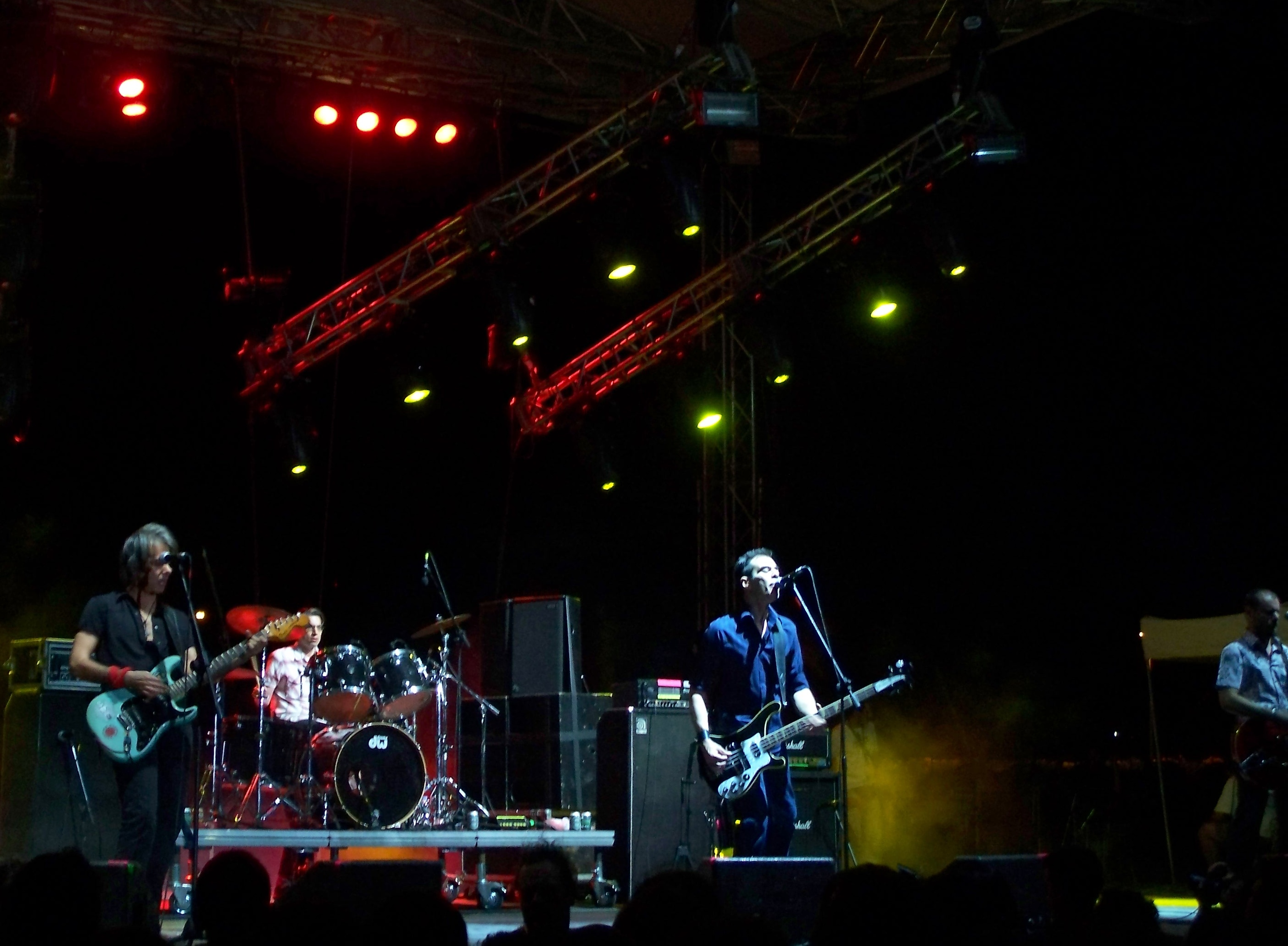 Greek garage band The Last Drive live in Athens July 2007 at the Open Air fest.